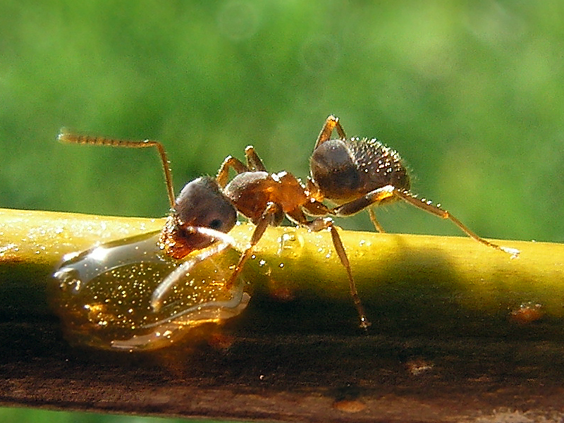 Lasius Niger (Black garden ant) on a plant. Getting ants to sit still long enough to make a good picture is a challenge if you don't use bait. Here, I've placed a droplet of honey on the stem. That kept this worker female busy for several minutes.